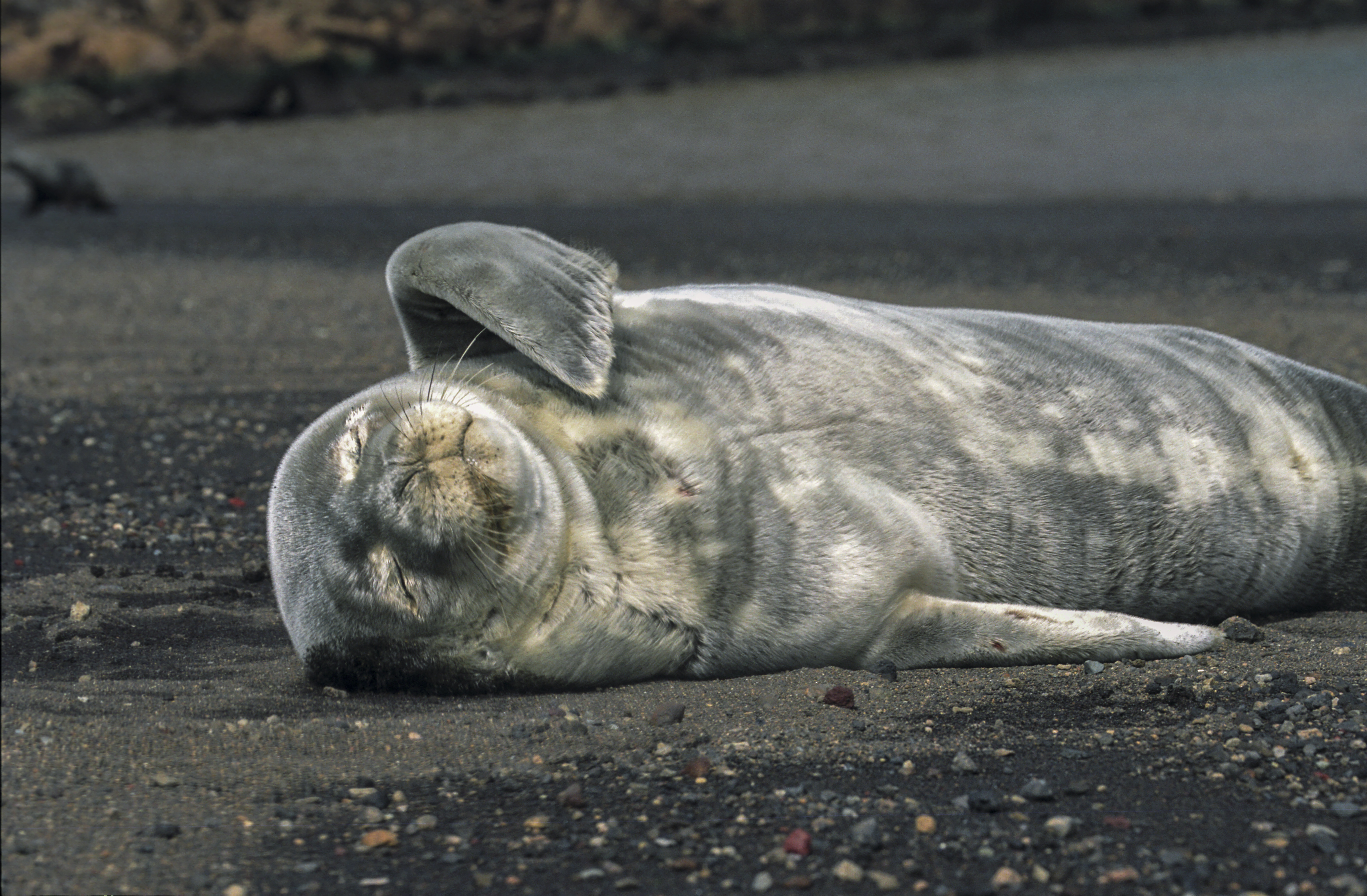 Weddell seal, Antarctica, Deception Island